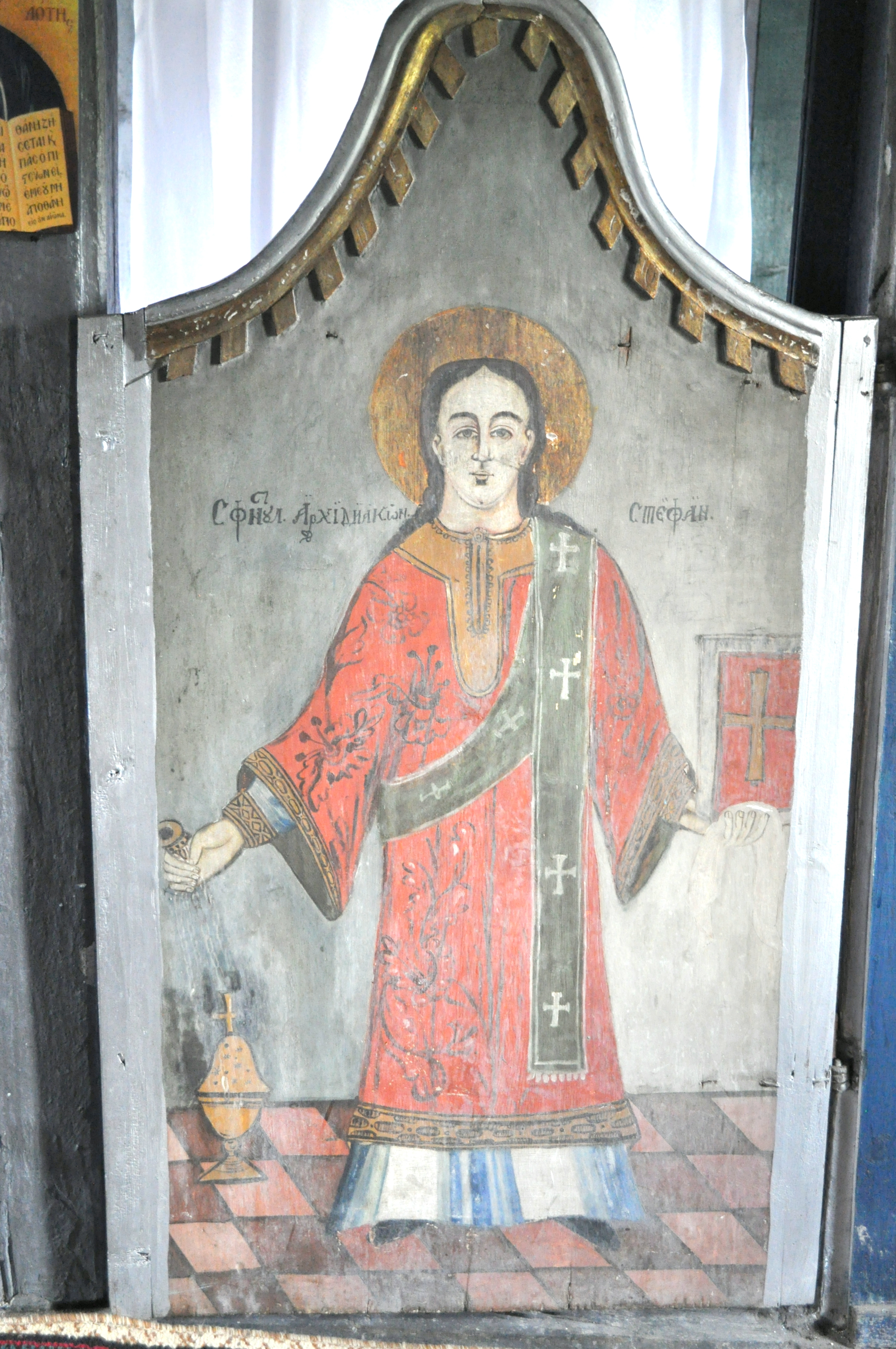 Wooden church in Mierţa, Sălaj county, Romania